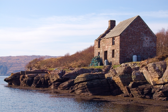 The Island of Soay Shark Fisheries Ltd The basking shark fishing station was established here in Soay Harbour by Gavin Maxwell, on a small island off Skye. It operated between 1945 and 1948, when it collapsed financially, having caught around 1,000 sharks. The huge carcasses were pulled out of the water here, the livers rendered for oil, the rest sold for fertilizer, aphrodisiacs or food. A glorious failure of an enterprise. Not to be confused with Soay in St Kilda, or Soay in the Outer Hebrides.